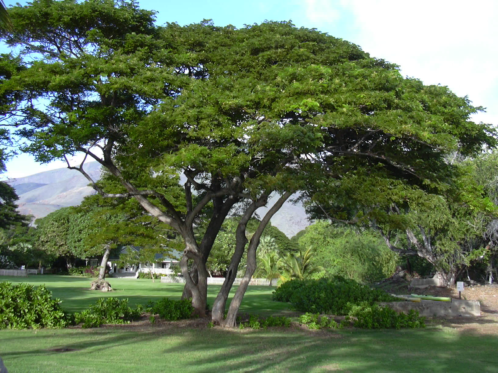 Samanea saman (habit). Location: Maui, Olowalu Pier